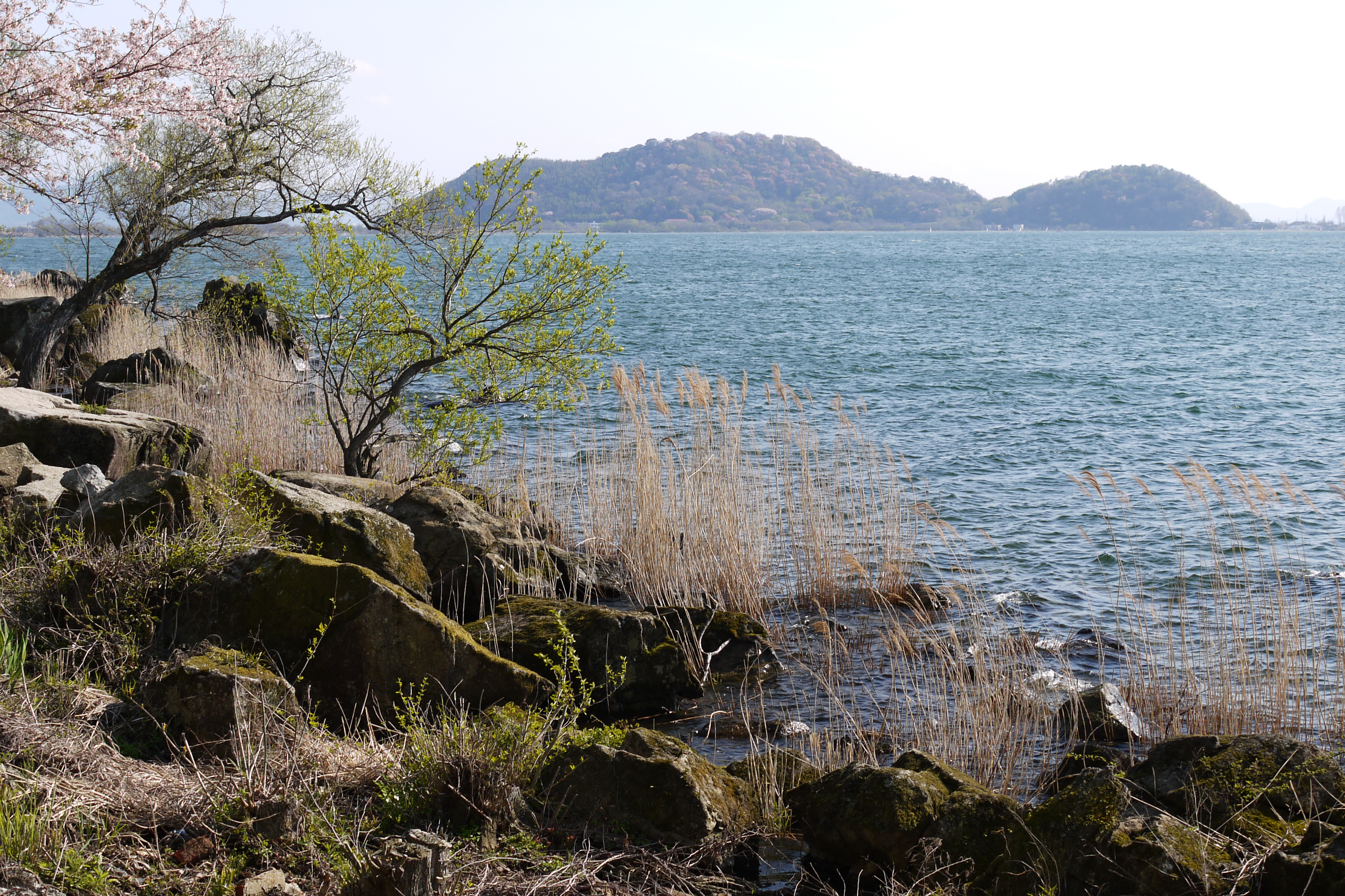 Lake Biwa at Chomeiji (Biwako Quasi-National Park), Omihachiman, Shiga prefecture, Japan.